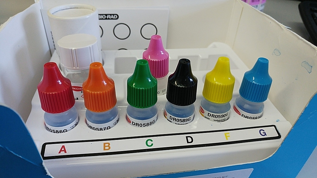 Lancefield pathogenic Streptococci grouping kit.